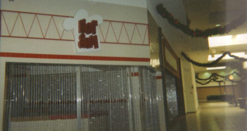 Former Hot Sam Pretzels at Hampton Towne Centre. Behind it is what I think was a Kinney Shoes, and to the left (just off-camera) was B. Dalton. Last time I looked, the Hot Sam storefront still had ovens and even a drink dispenser inside. The former Weichmann's department store is at the end of the hallway. Taken sometime in 2003.